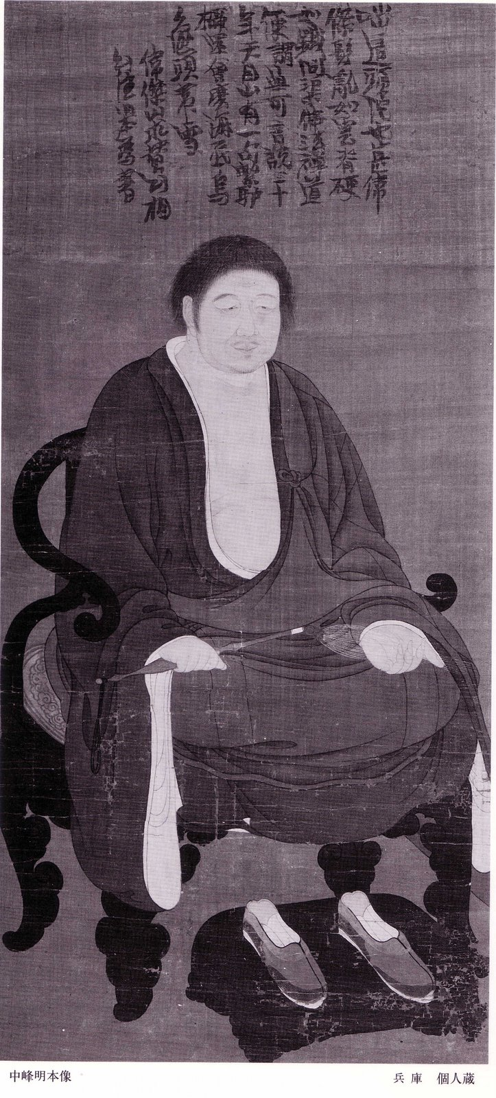 Portrait of Zhongfeng Mingben. Private collection.